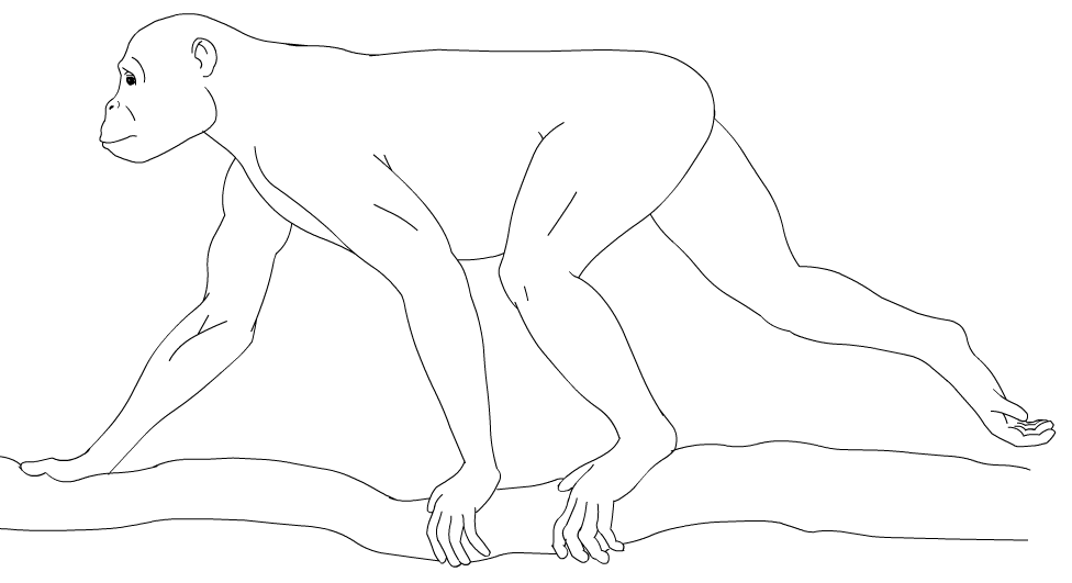 Description: Picture made by mateus zica in October 2005 Mateus Zica Wikipedia User Page is: This image is free to use in anywhere. If you gonna use it ,just send me a email telling me where its gonna be used.Thanks. Source: Mateus Zica